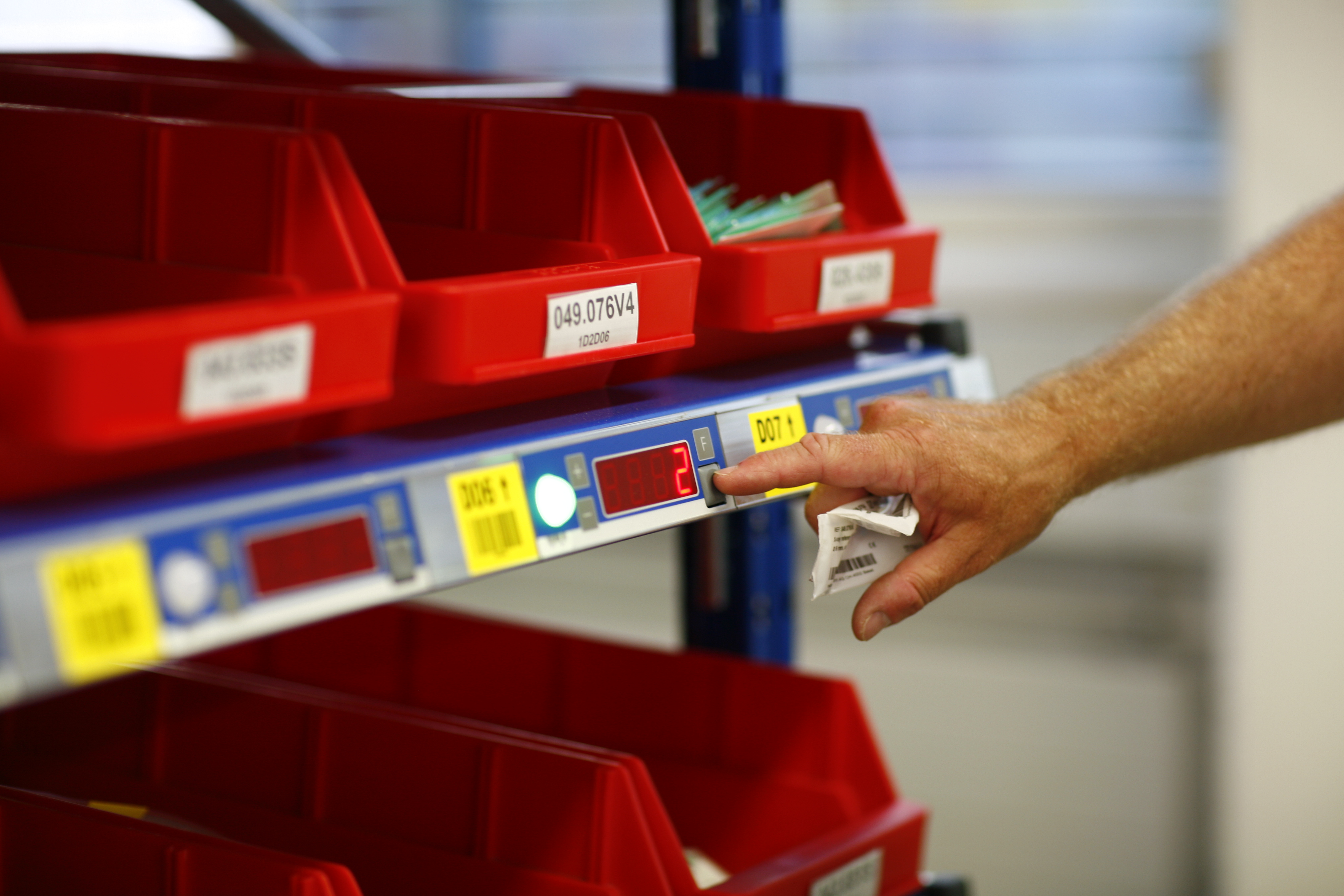 Pick to light display "PickTerm Flexible"